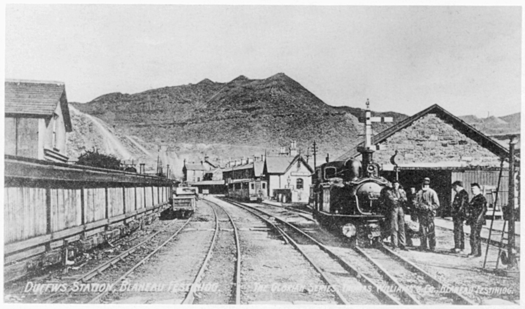 Ffestiniog Railway Double Fairlie locomotive "James Spooner" at Duffws station, Blaenau Ffestiniog